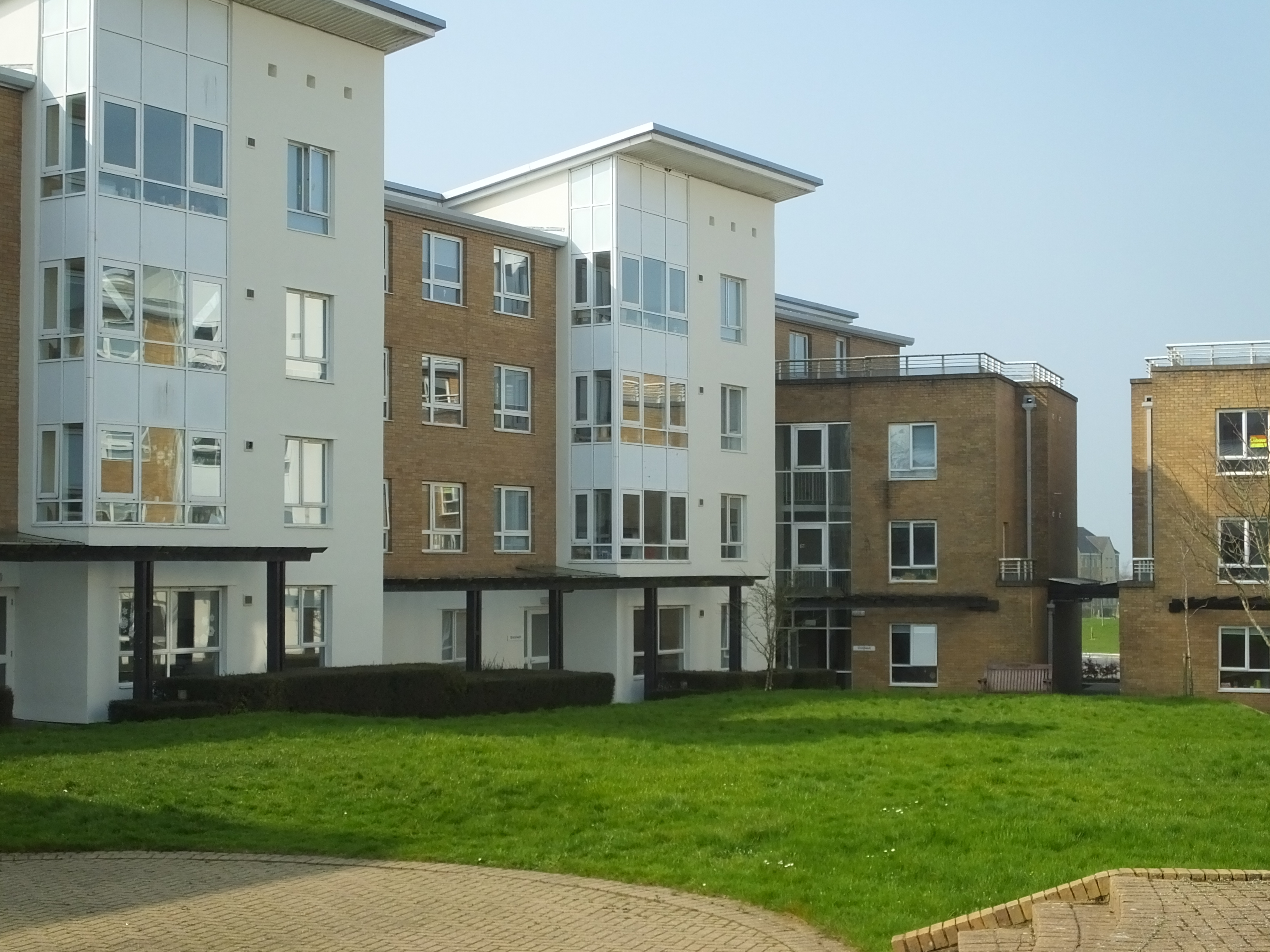 Lancaster University, taken during a vacation. The numbers in the filename cross refer to the official map.